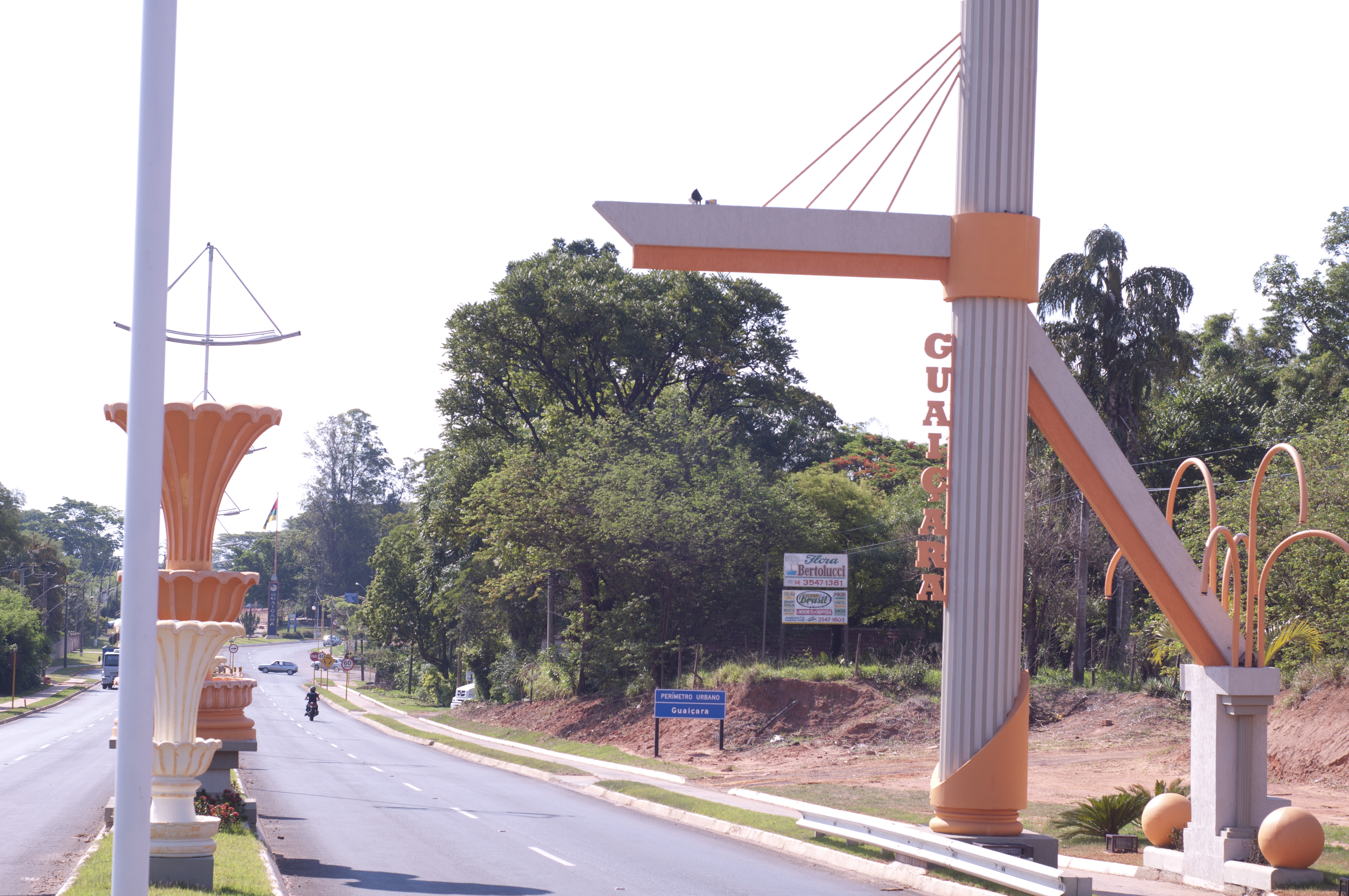 Tourisitc portal in Guaiçara's entrance